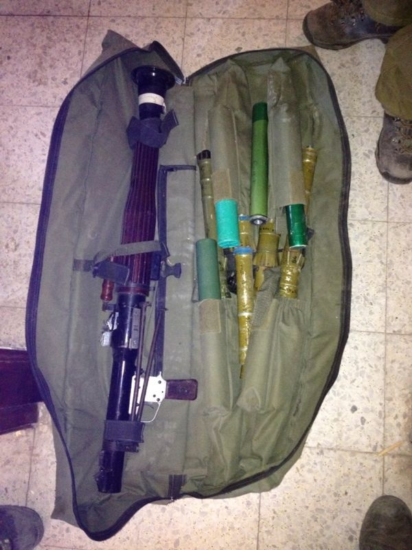 IDF special forces from the Golani Brigade found these automatic rifles, RPGs and ammunition hidden in Shuja'iya, June 24, 2014.